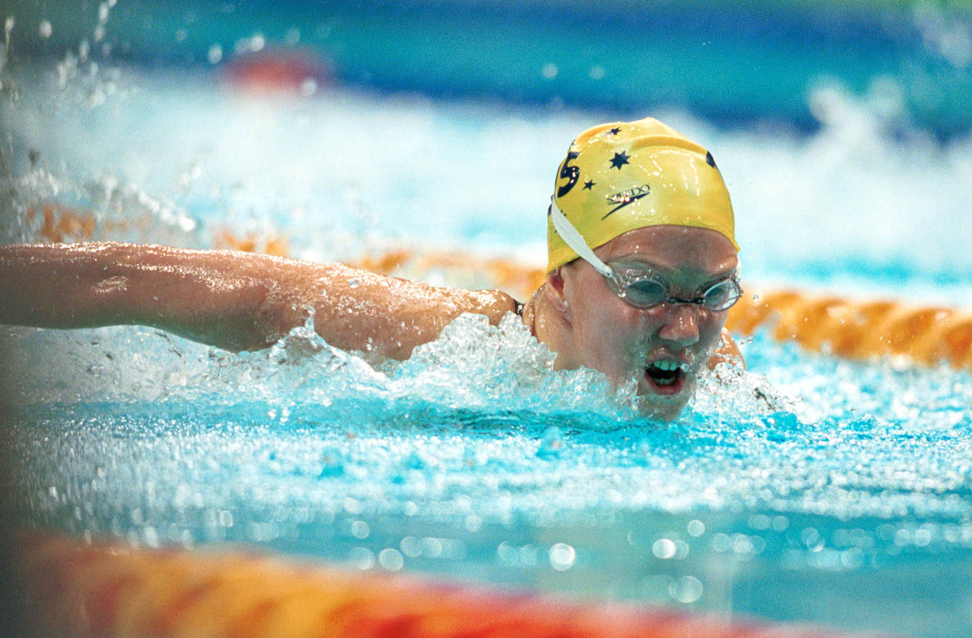 Action shot of Australian swimmer Kate Bailey in the pool during Day 03 of the 2000 Sydney Paralympic Games